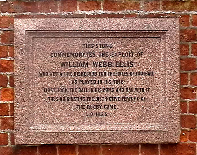 Plaque at the Rugby School in memory of William Webb Ellis who is said to have invented the rugby sport. The plaque reads: "This stone commemorates the exploit of William Webb Ellis who with a fine disregard for the rules of football as played in his time first took the ball in his arms and ran with it thus originating the distinctive feature of the rugby game. A.D. 1823".